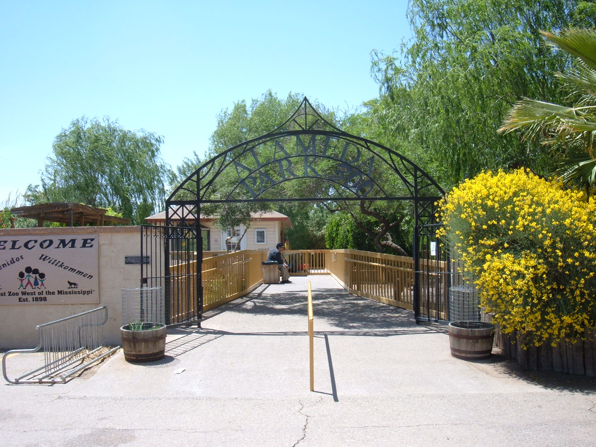 entrance of Alameda Park Zoo in Alamogordo, New Mexico, showing the metal gate, the bridge over the duck pond, and the gift shop